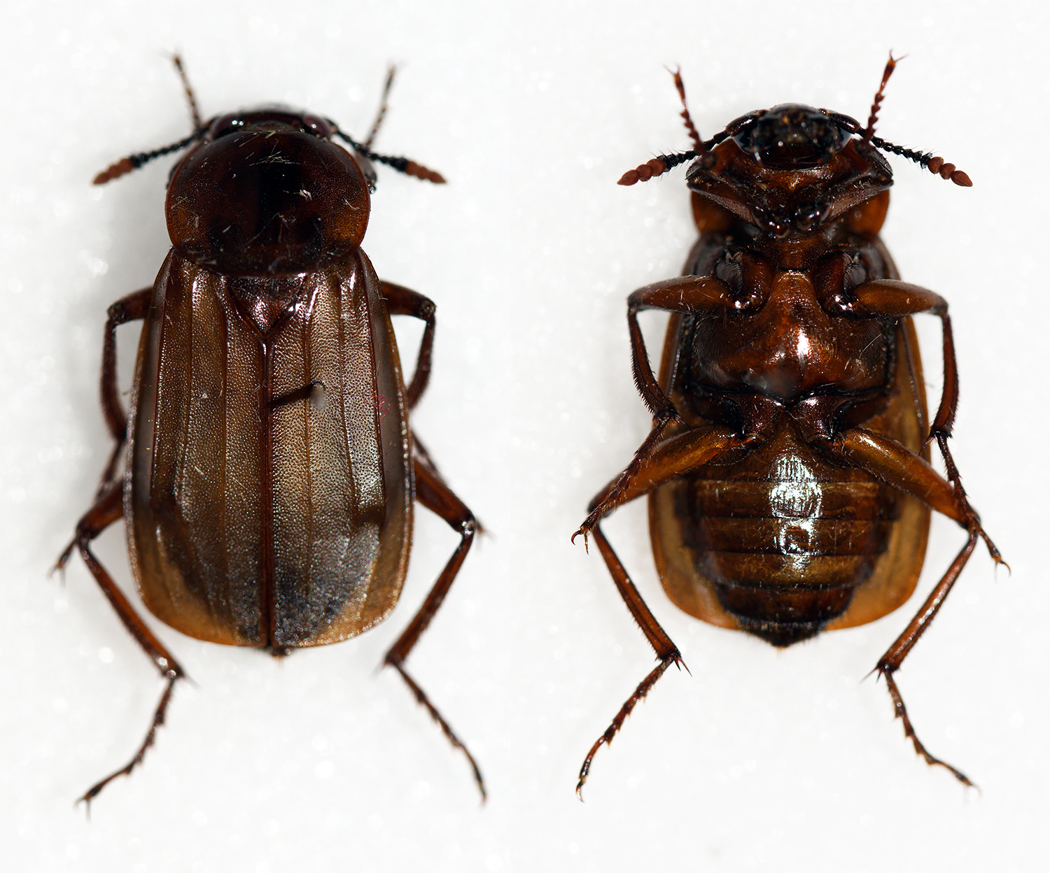 Silphidae - In collection